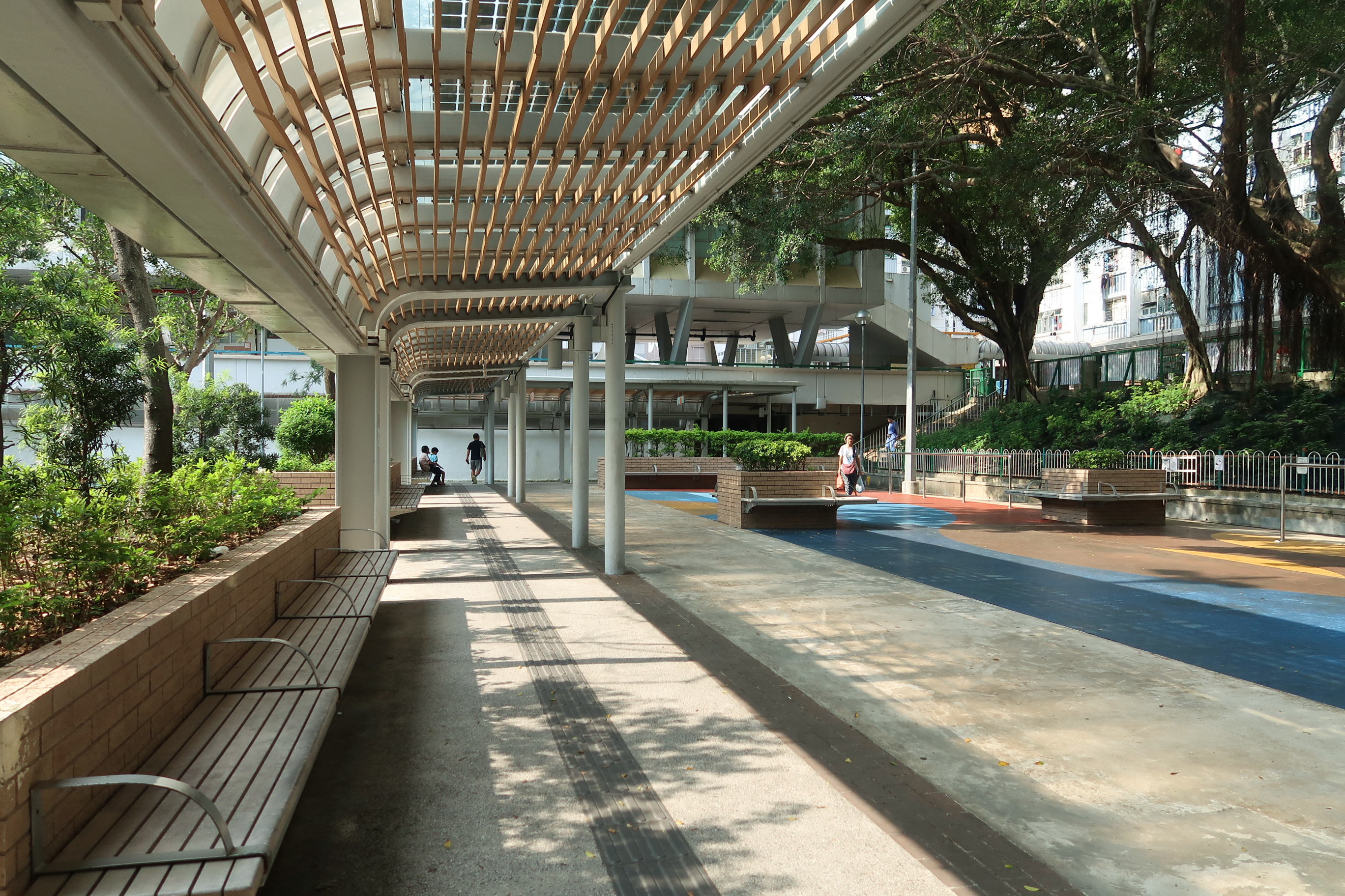 Ping Shek Estate Covered walkway